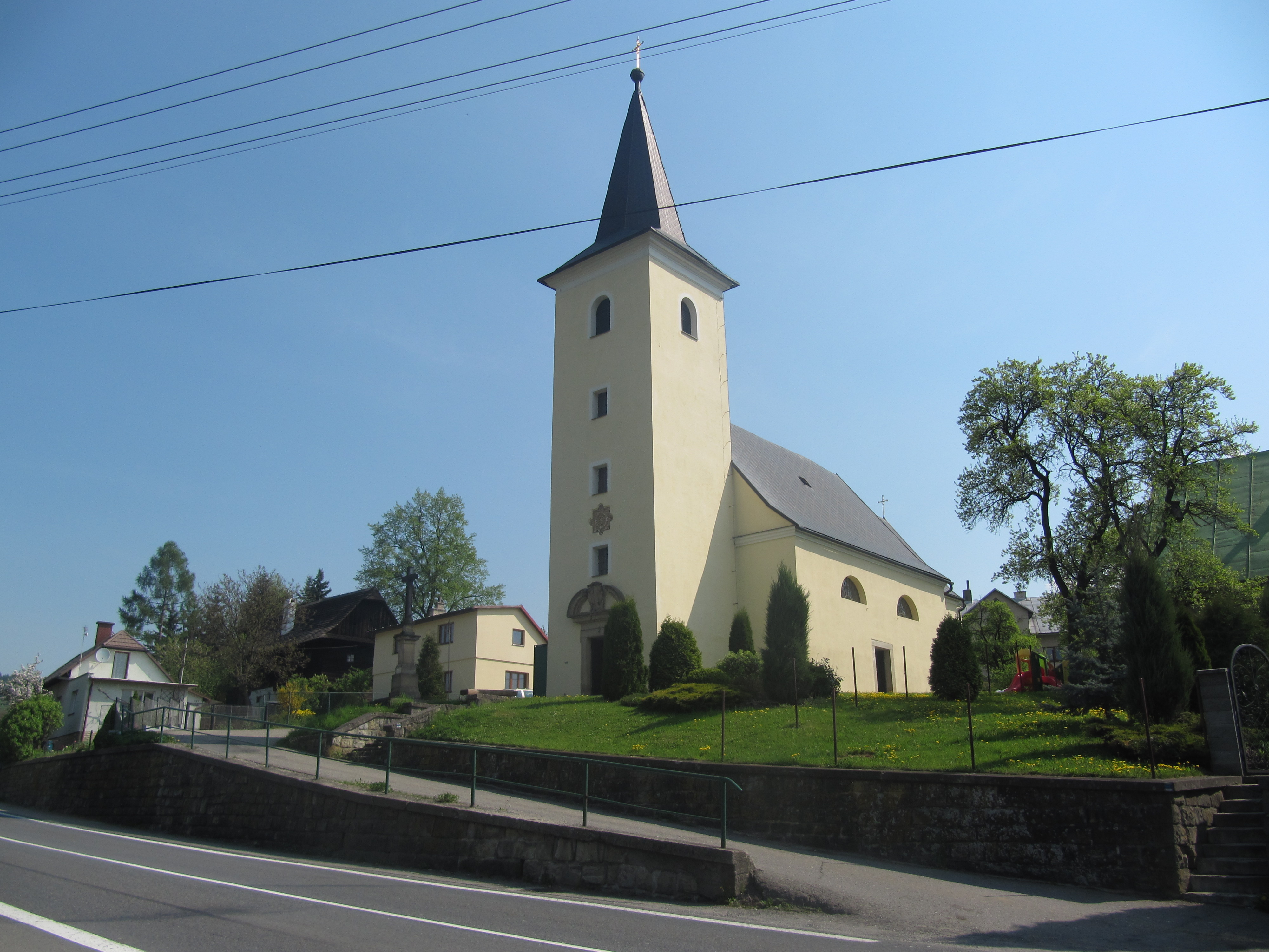 Jasenná in Zlín District, Czech Republic. Catholic church.